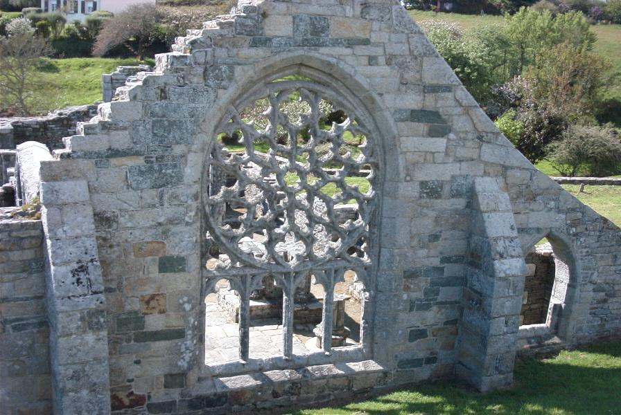 Chapelle de Languidou : chevet (vue extérieure)